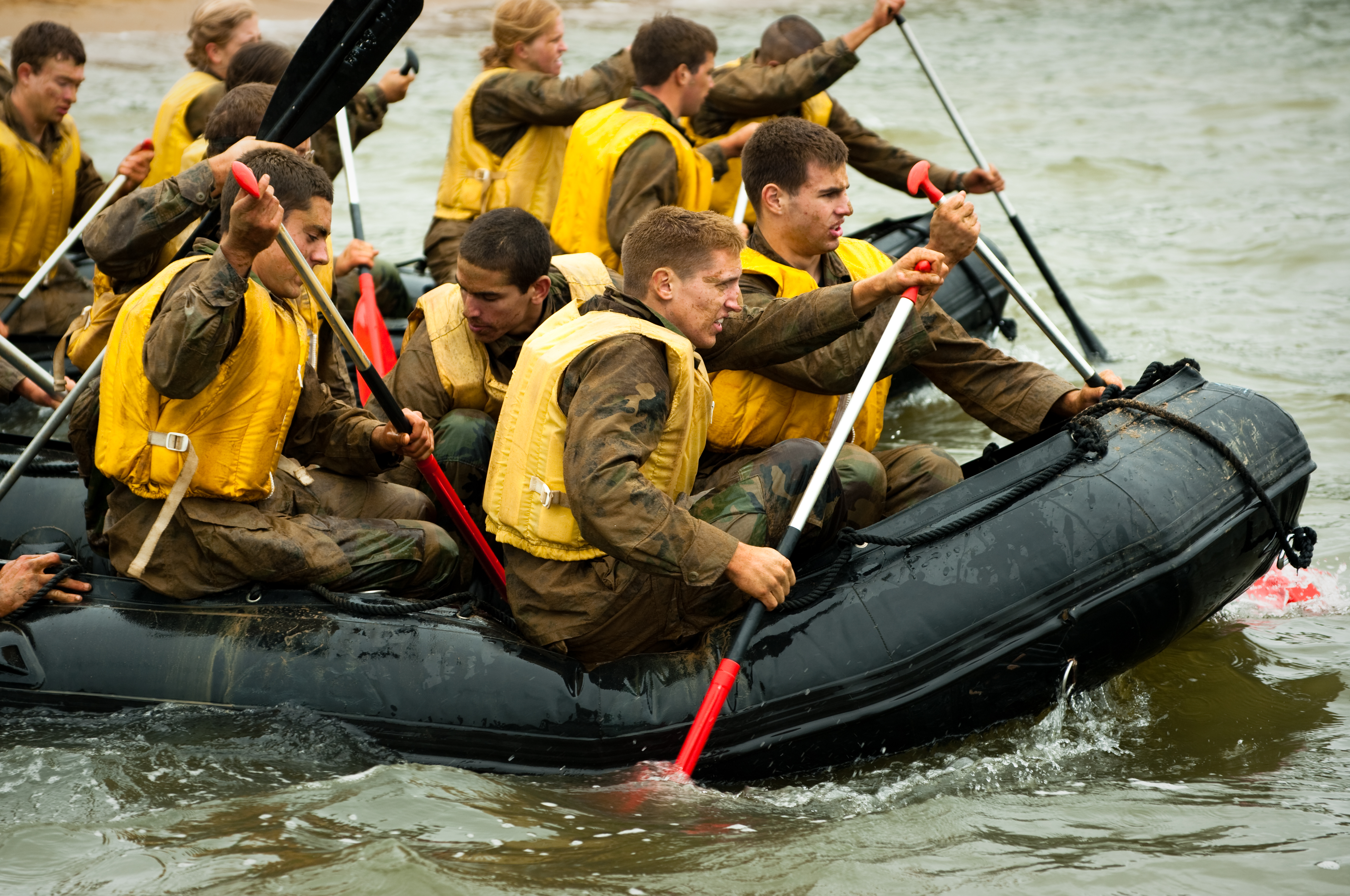 ANNAPOLIS, Md. (May 18, 2010) Plebes paddle pontoon boats during a team-building portion of Sea Trials at the U.S. Naval Academy. Sea Trials is the capstone training evolution for Academy freshmen. The plebes navigate physical and mental challenges, ranging from obstacle courses, long-distance group runs, damage control scenarios, and water training to challenge them individually and as a team. (U.S. Navy photo by Mass Communication Specialist 1st Class Gregory E. Badger/Released)